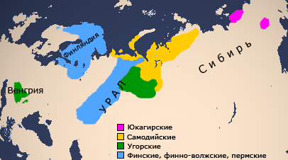 Russian version of the map